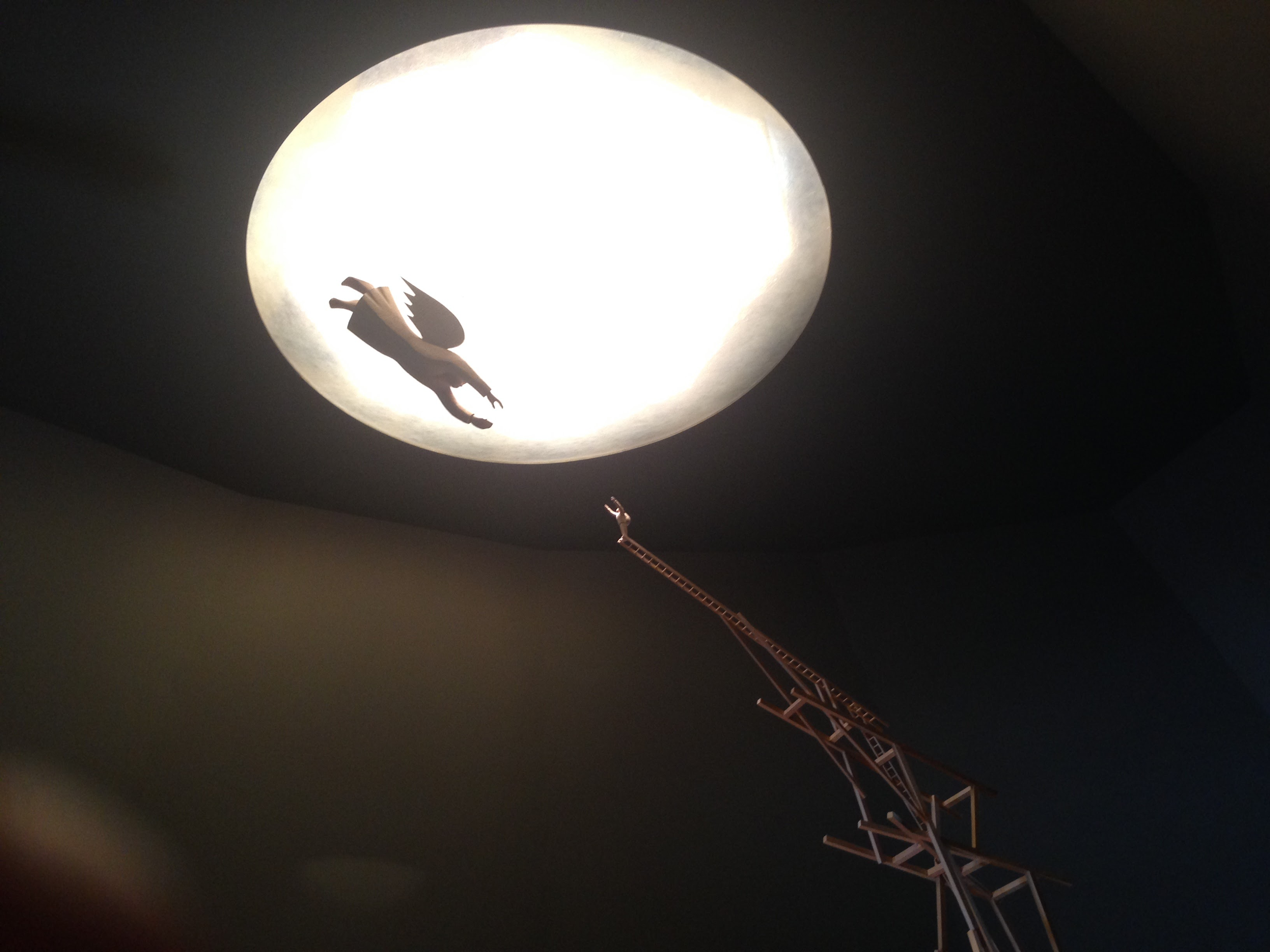 Ilya and Emilia Kabakov